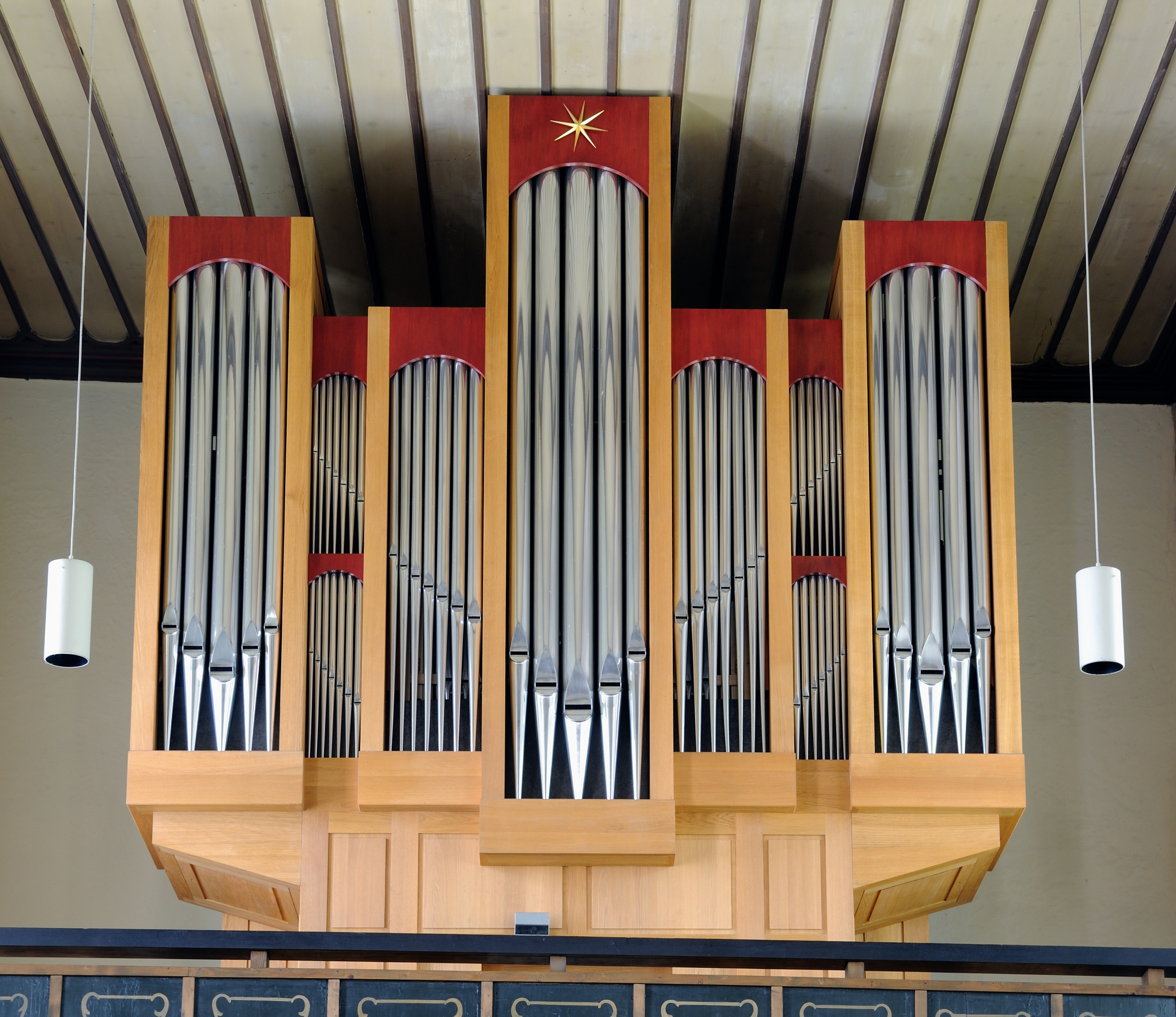 Niedereggenen: Protestant Church